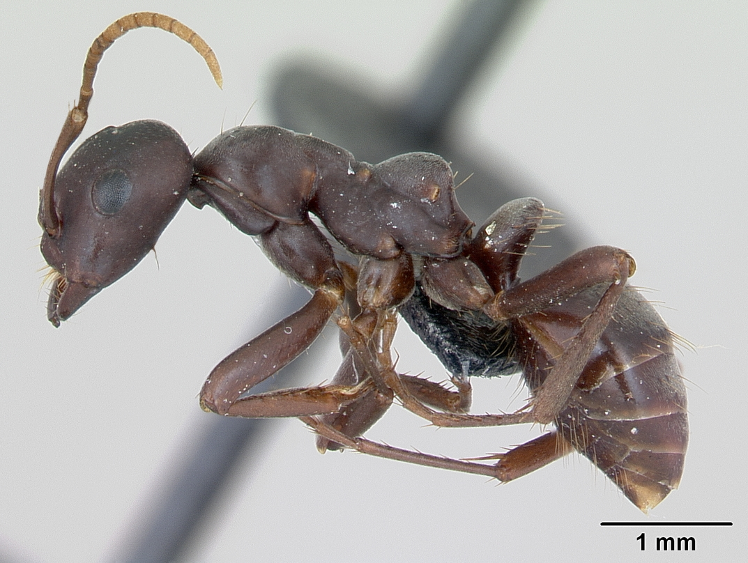 Profile view of ant Polyergus nigerrimus specimen casent0173327.